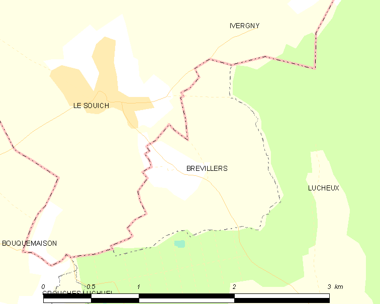 Map of French municipality Brévillers